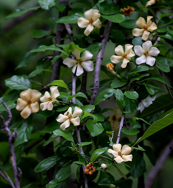 Catunaregam spinosa syn. Randia dumetorum - Mountain Pomegranate, Spiny Randia, False guava, Thorny Bone-apple, Common emetic nut • Hindi: मैनफल Mainphal • Marathi: घेला Ghela, Khajkanda • Tamil: Madkarai • Malayalam: Karacchulli • Telugu: Marrga • Kannada: Kaarekaayi-gida • Oriya: Patova • Sanskrit: Madanah - in Hyderabad, India.